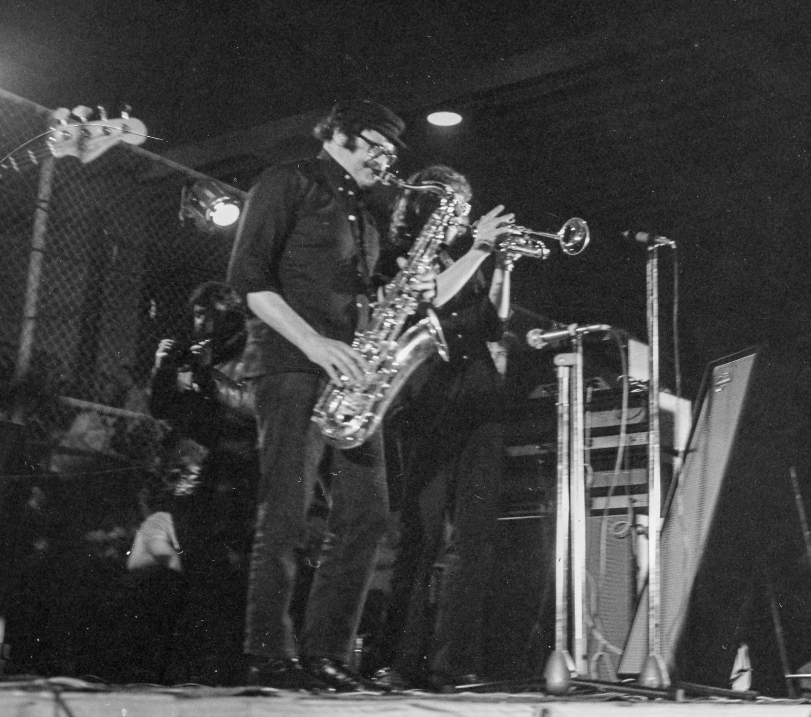 Dick Heckstall-Smith with Colosseum, Joint Meeting Festival, Duesseldorf 1970